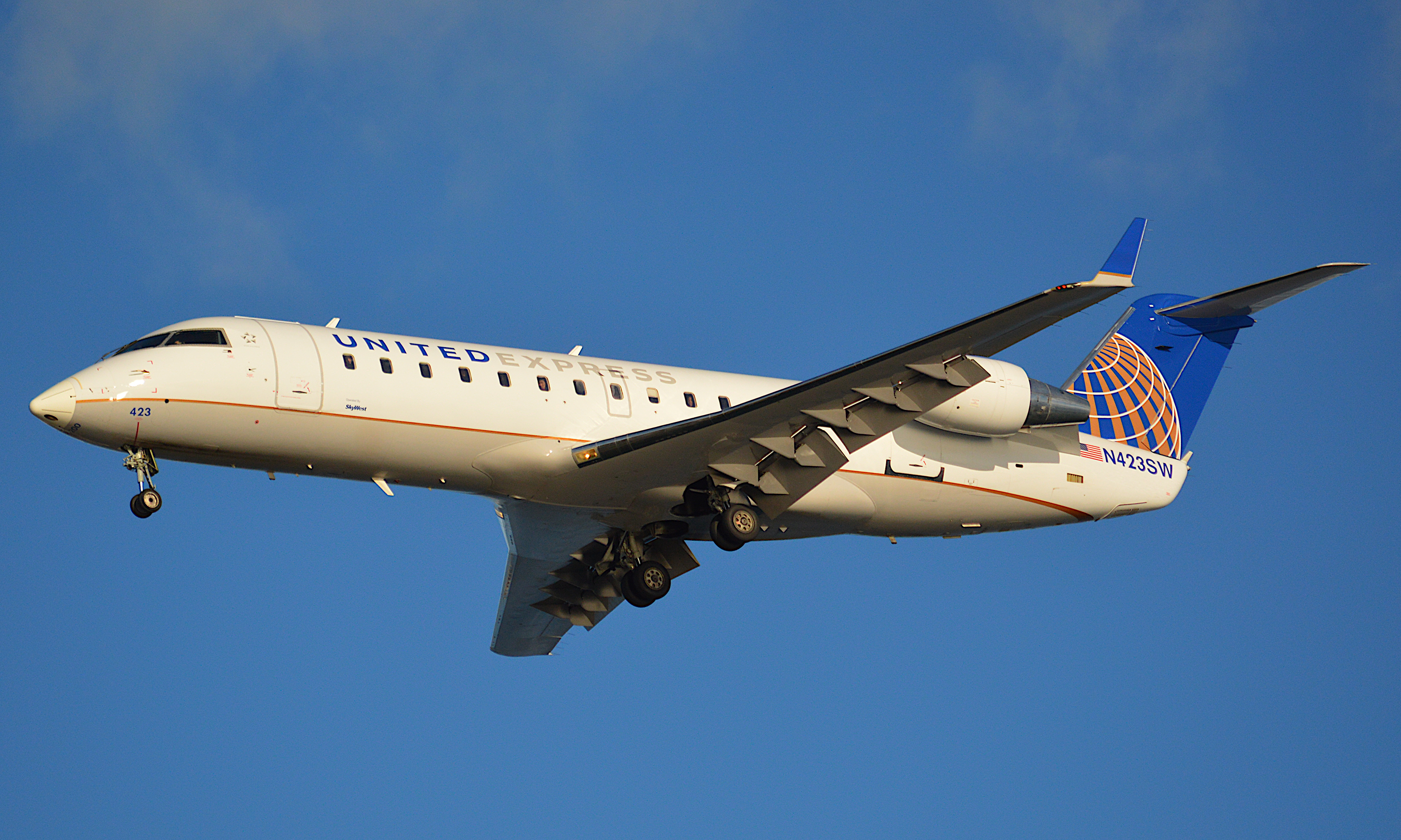 This may be the last picture of United at YYJ - service ended only a week later on January 6, 2019. United Express (Operated by SkyWest) CRJ-200 N423SW landing on runway 27, Victoria International Airport, December 30, 2018.